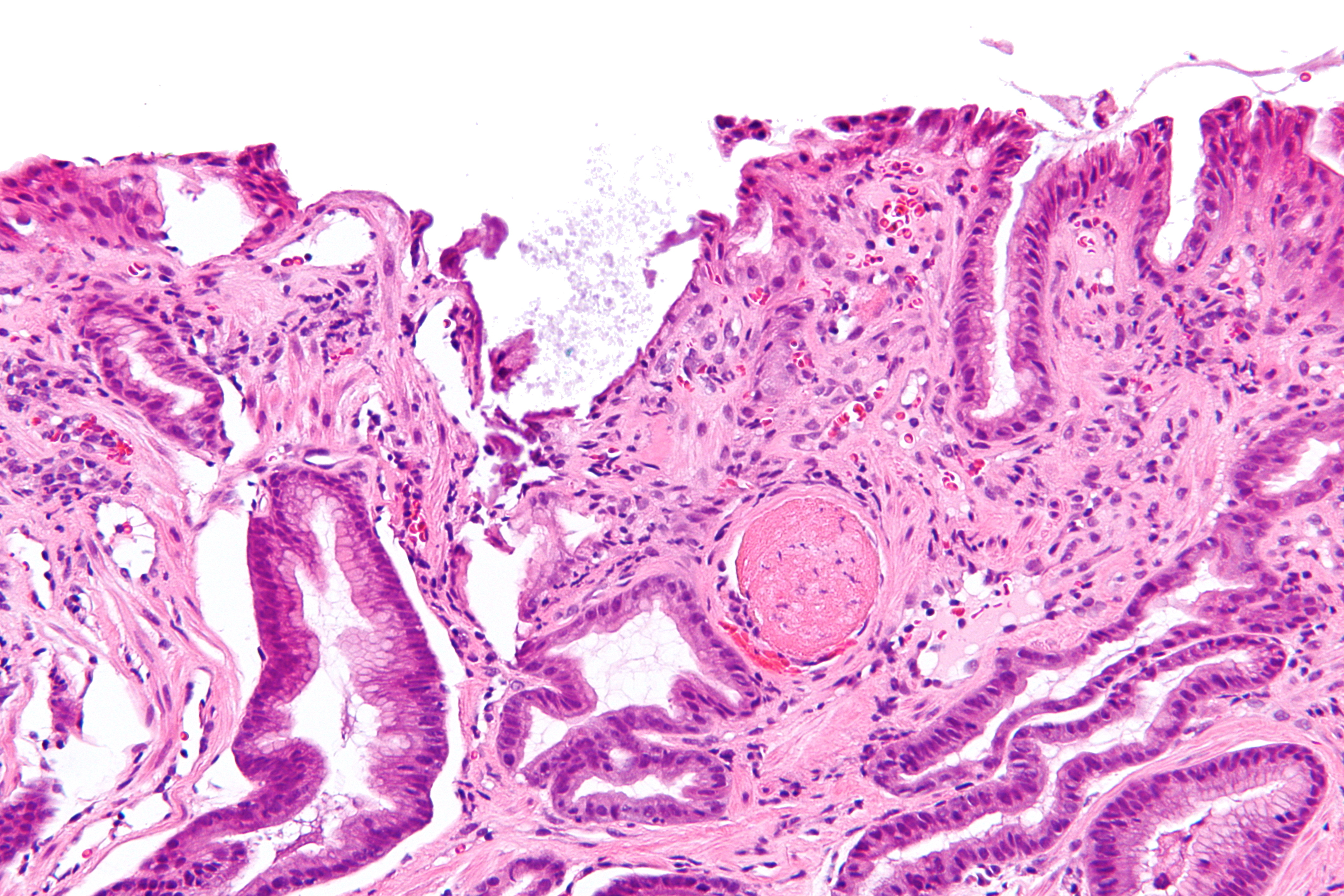 High magnification micrograph of gastric antral vascular ectasia, commonly abbreviated GAVE. H&E stain. Features of GAVE: Fibrin thrombi. Dialated blood vessels in the lamina propria. Related images Intermed. mag. Very high mag. Another field: Low mag. Intermed. mag. High mag. Very high mag.